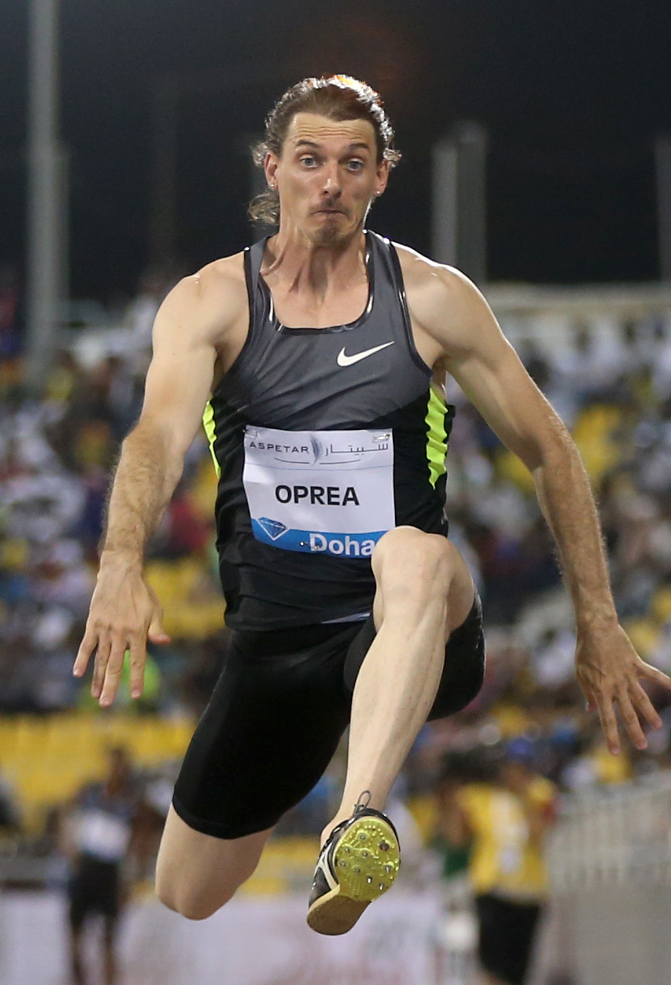 Romania's Marian Oprea competes in the men's triple jump at the Doha Diamond League.